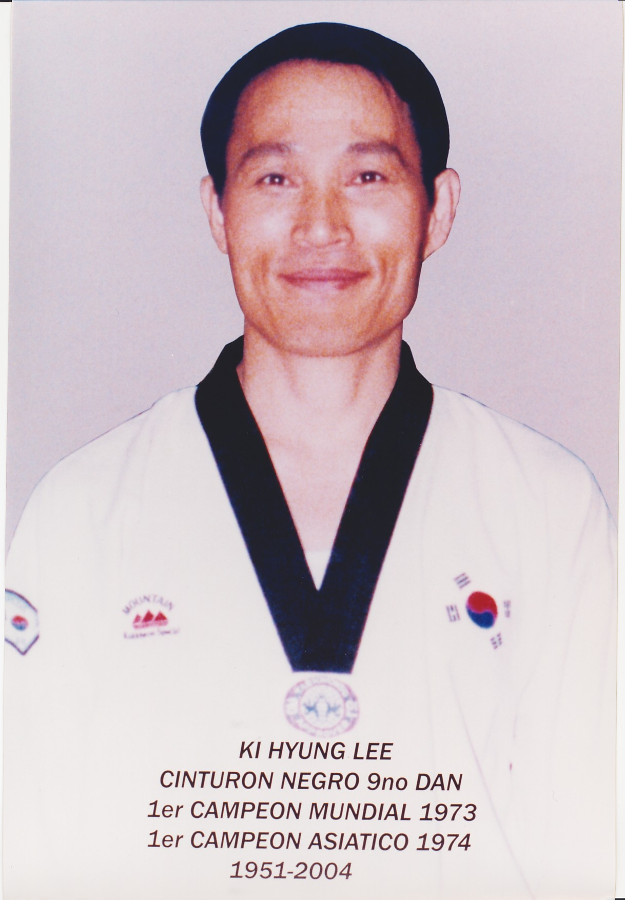 Taekwondo Master Ki Hyung Lee